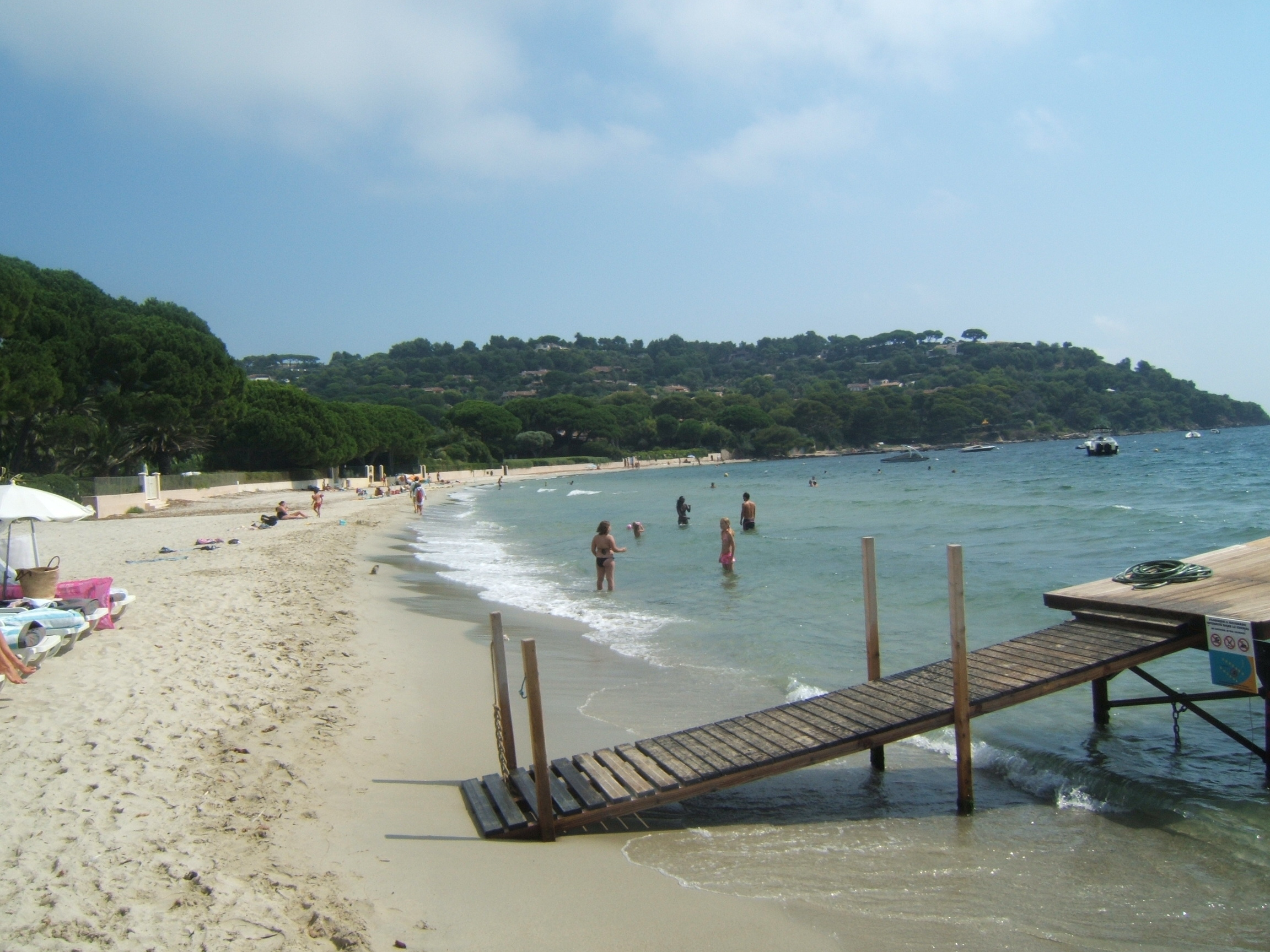 2011 Photo of la plage de Tahiti (Tahiti Beach), near Saint Tropez.